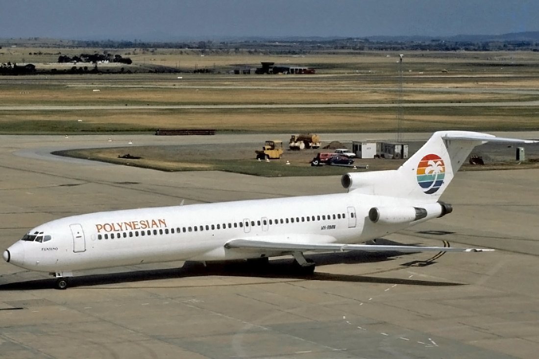 Polynesian Airlines Boeing 727-200 at Sydney Airport